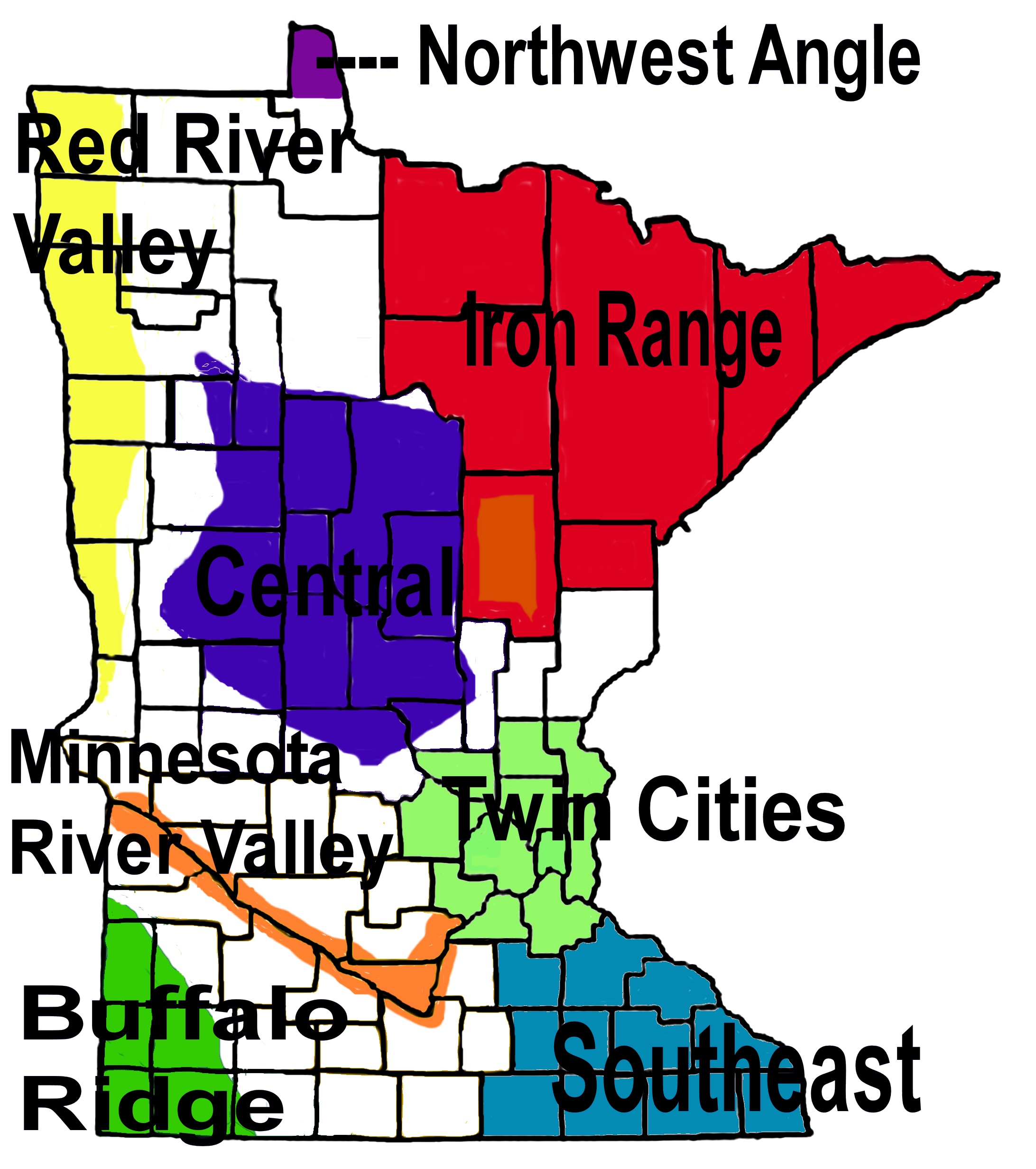 A map of some distinctive regions of the U.S. state of Minnesota